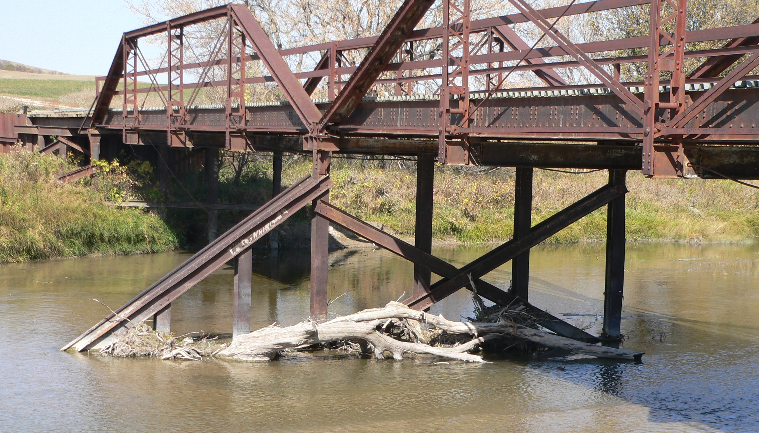 Lewis Bridge, located near the state line separating Keya Paha County, Nebraska from Tripp County, South Dakota. The bridge carries an unpaved county road across the Keya Paha River. At the bridge, the river runs roughly from southwest to northeast. The photo shows the pier in the middle of the river, between the two truss spans; upstream is left. The bridge is listed in the National Register of Historic Places.